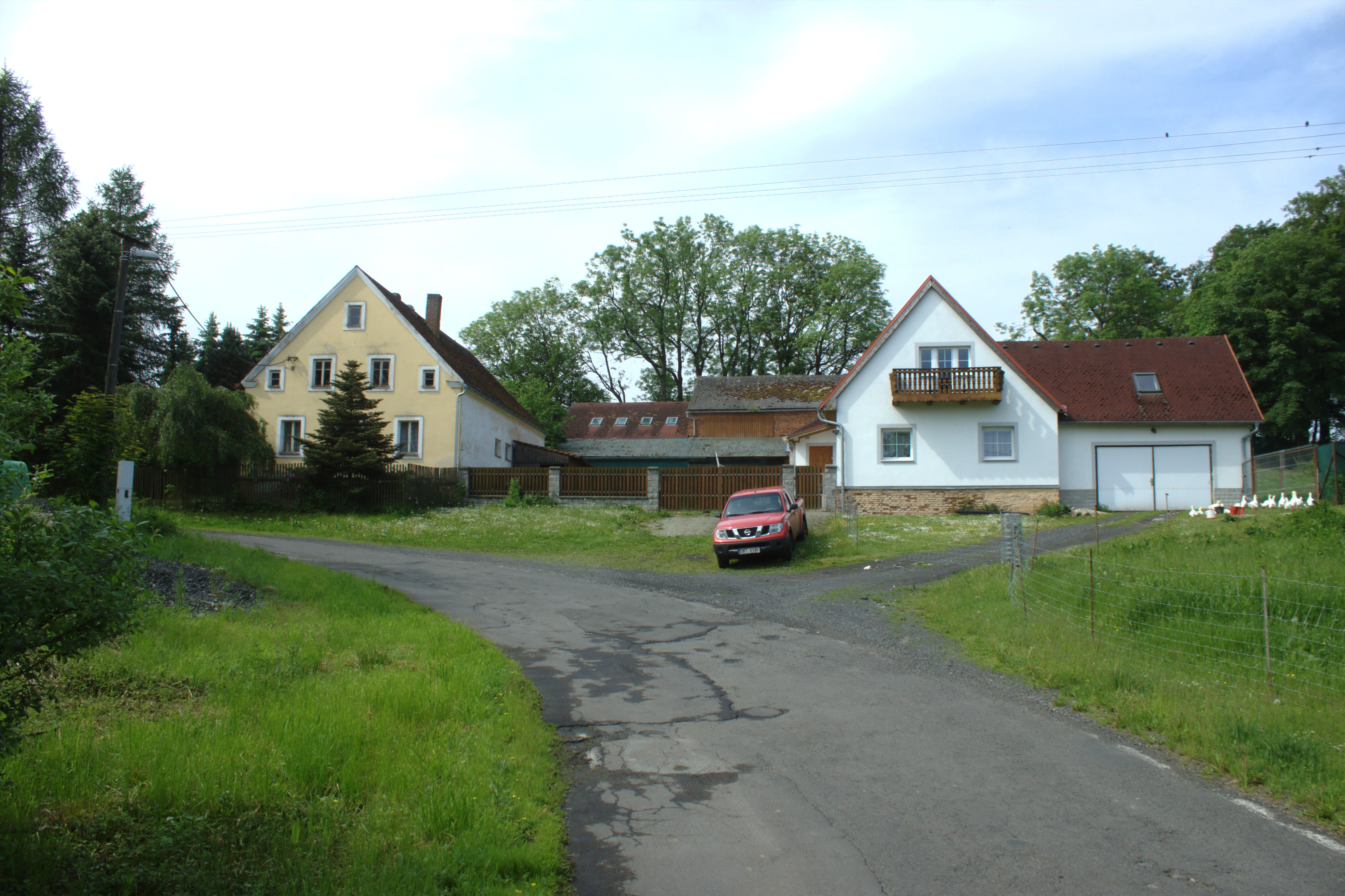 Buildigns in Bezvěrov near Teplá, CZ